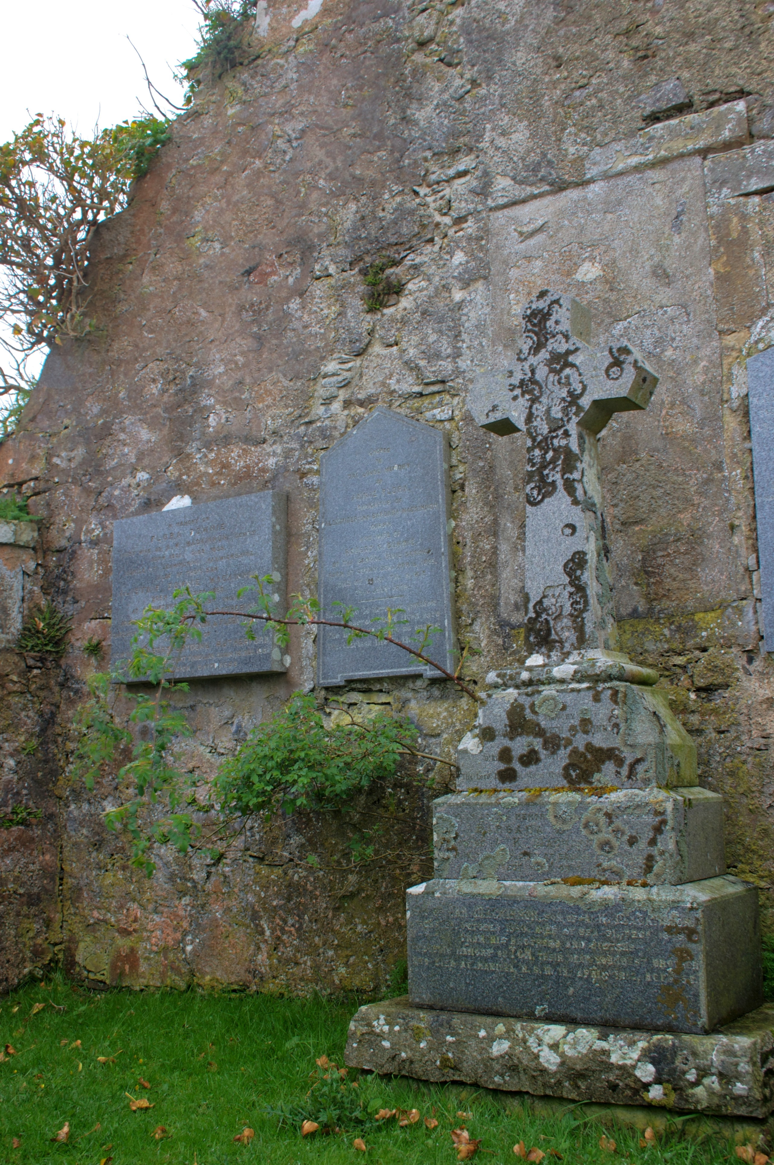 Gravestones at Cill Chriosd.